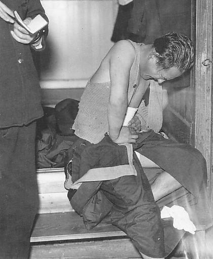 Shinoudan Incident